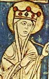 Leonora of England